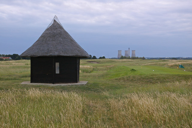 Shelter, Princes Golf Course In the background are the cooling towers of the disused Richborough Power Station.